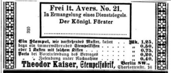 An advertisement of Theodor Keiser, the owner of Stempelfabrik (Stamp Fabric), Berlin, and producer of German postage prepaid postmarks "Frei lt. (laut) Avers". Deutsche Forst-zeitung, January 2, 1898.